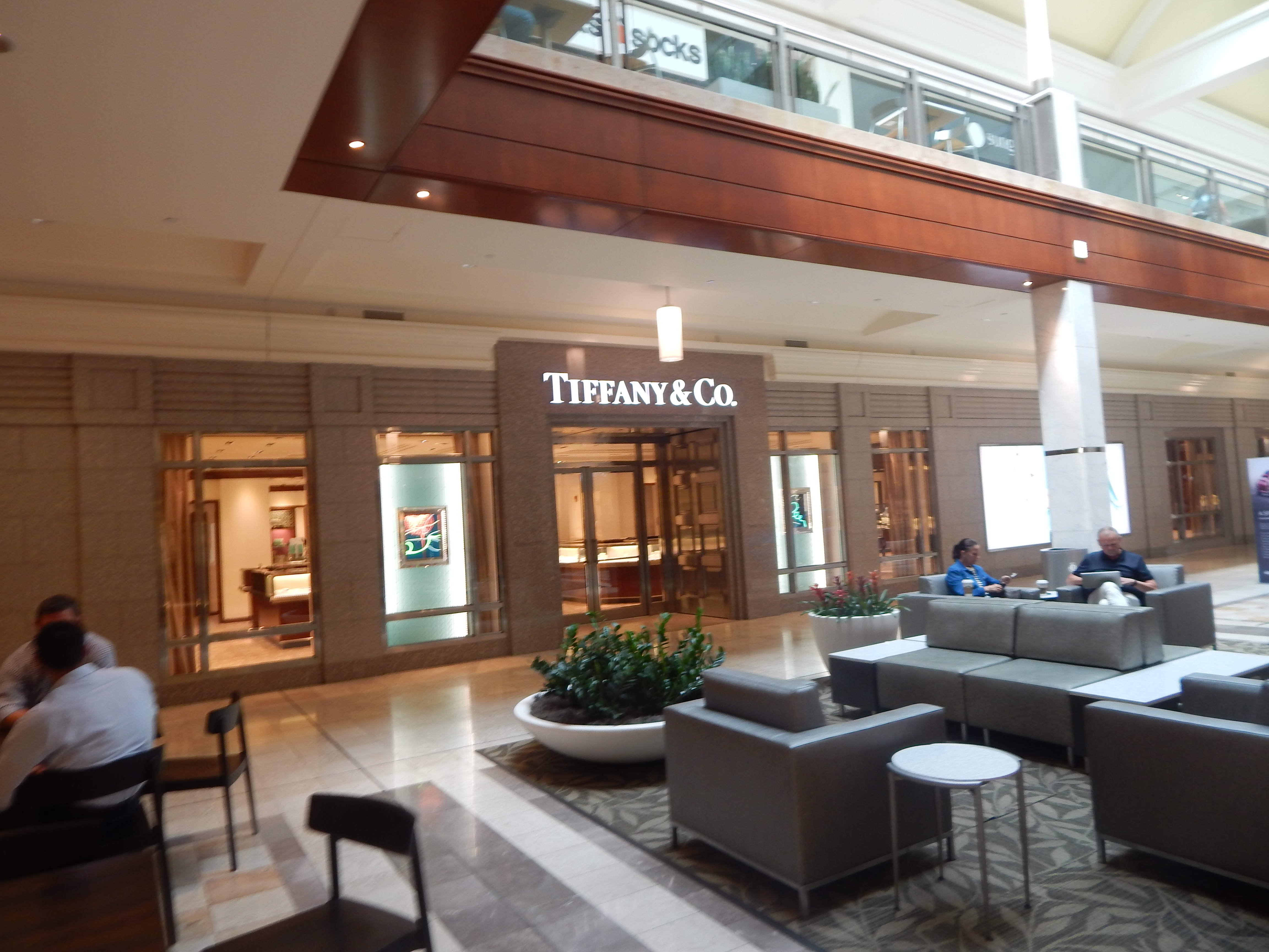 Tiffany & Co. is one of the many luxury stores at Phipps Plaza.